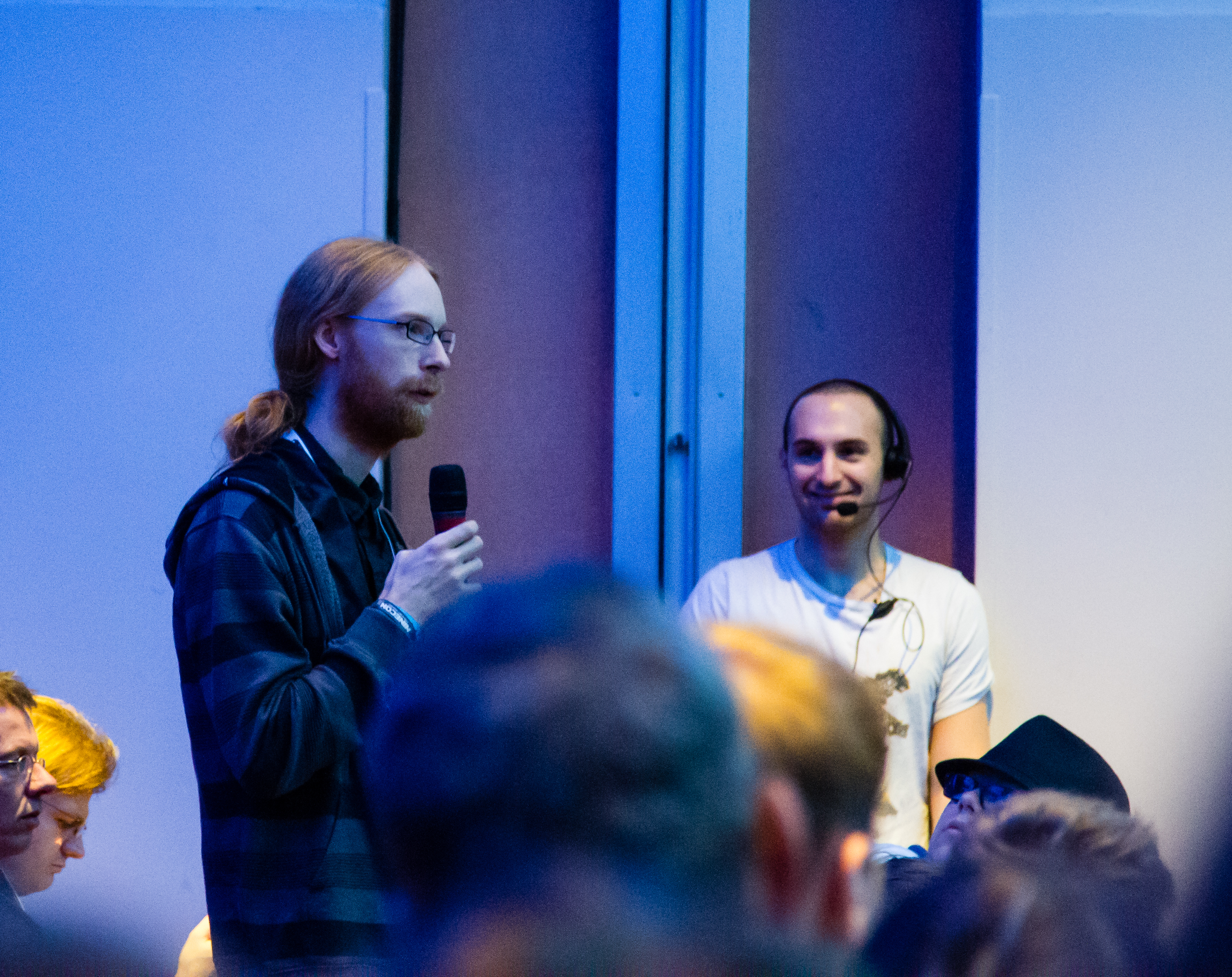 Jens Bergensten speaking at a modders panel at Minecon 2012